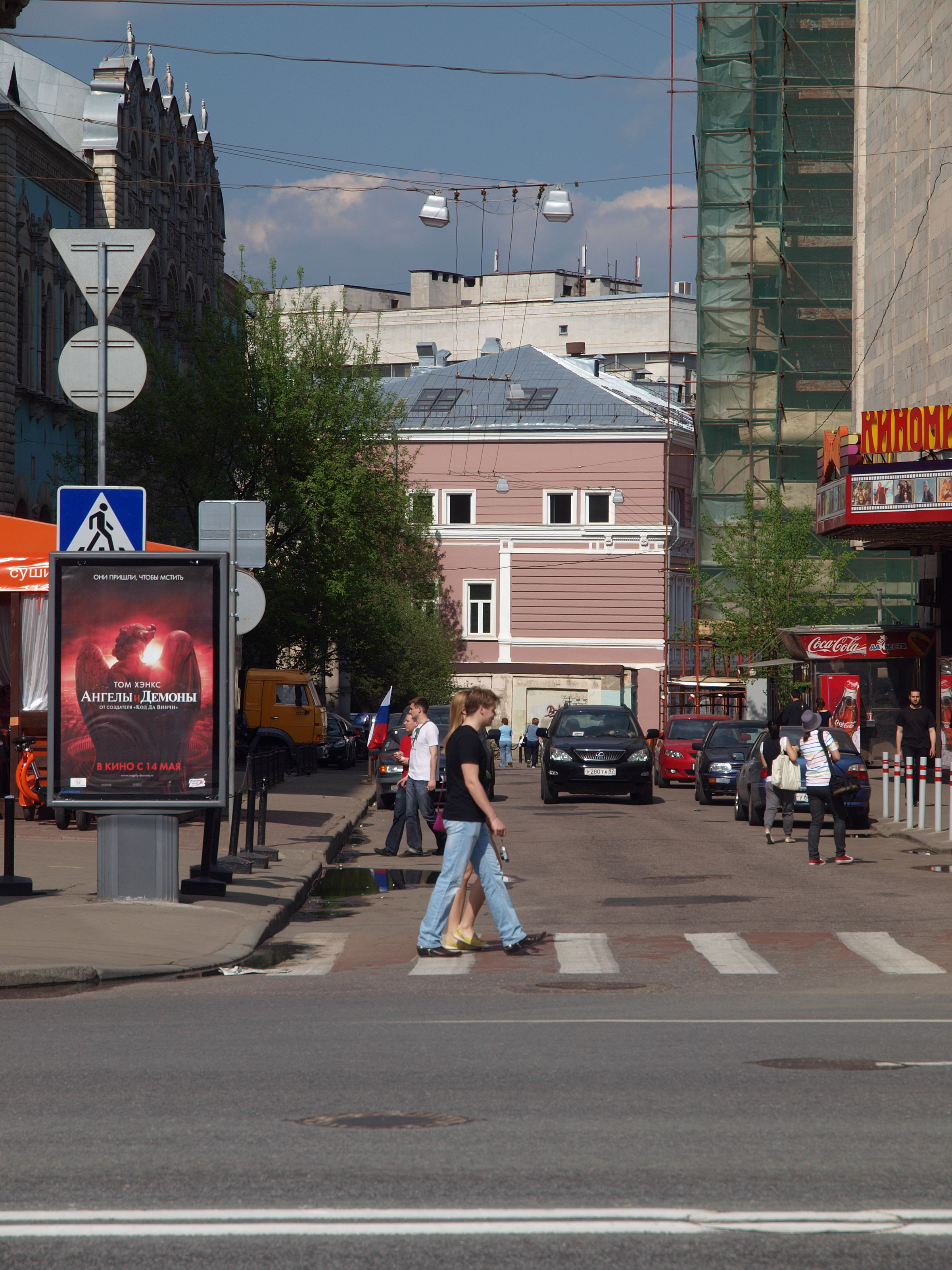 Nastas'yinsky lane, Moscow.